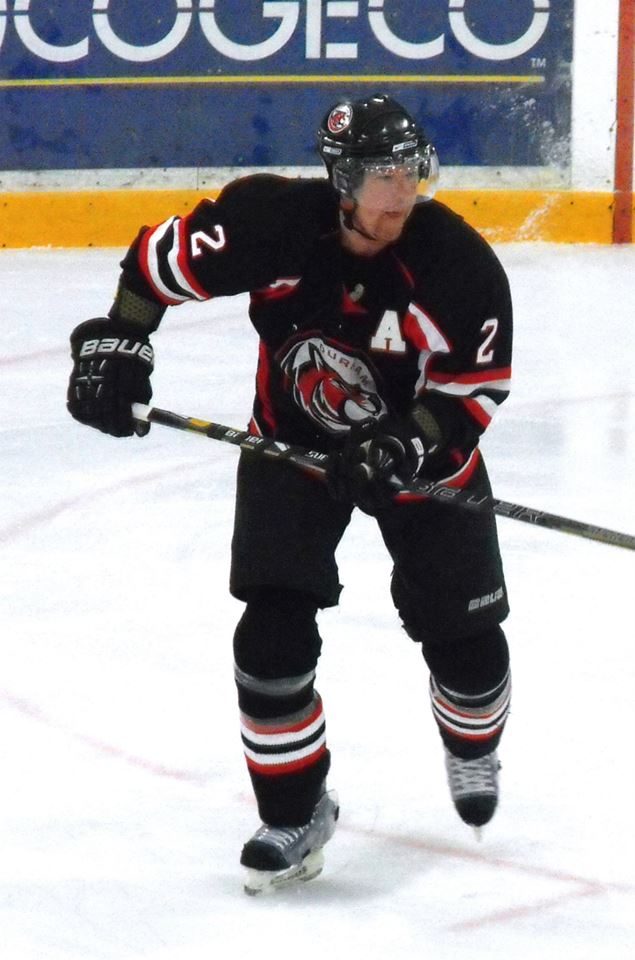 These images of WOAA action are taken by Devan Mighton.